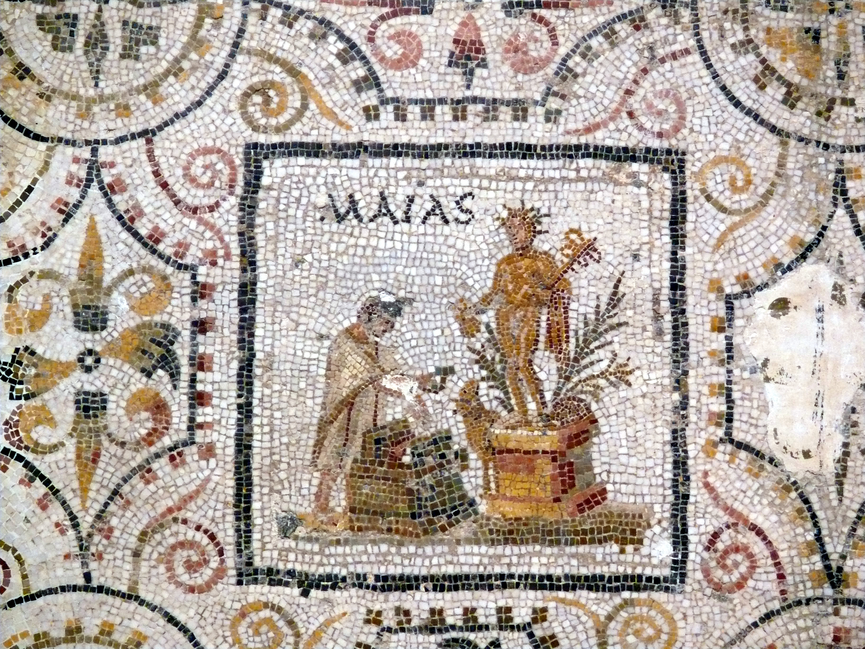 May, fragment of a mosaic with the months of the year, starting with the Roman first month March. First half third century El Jem Archeological Museum of Sousse